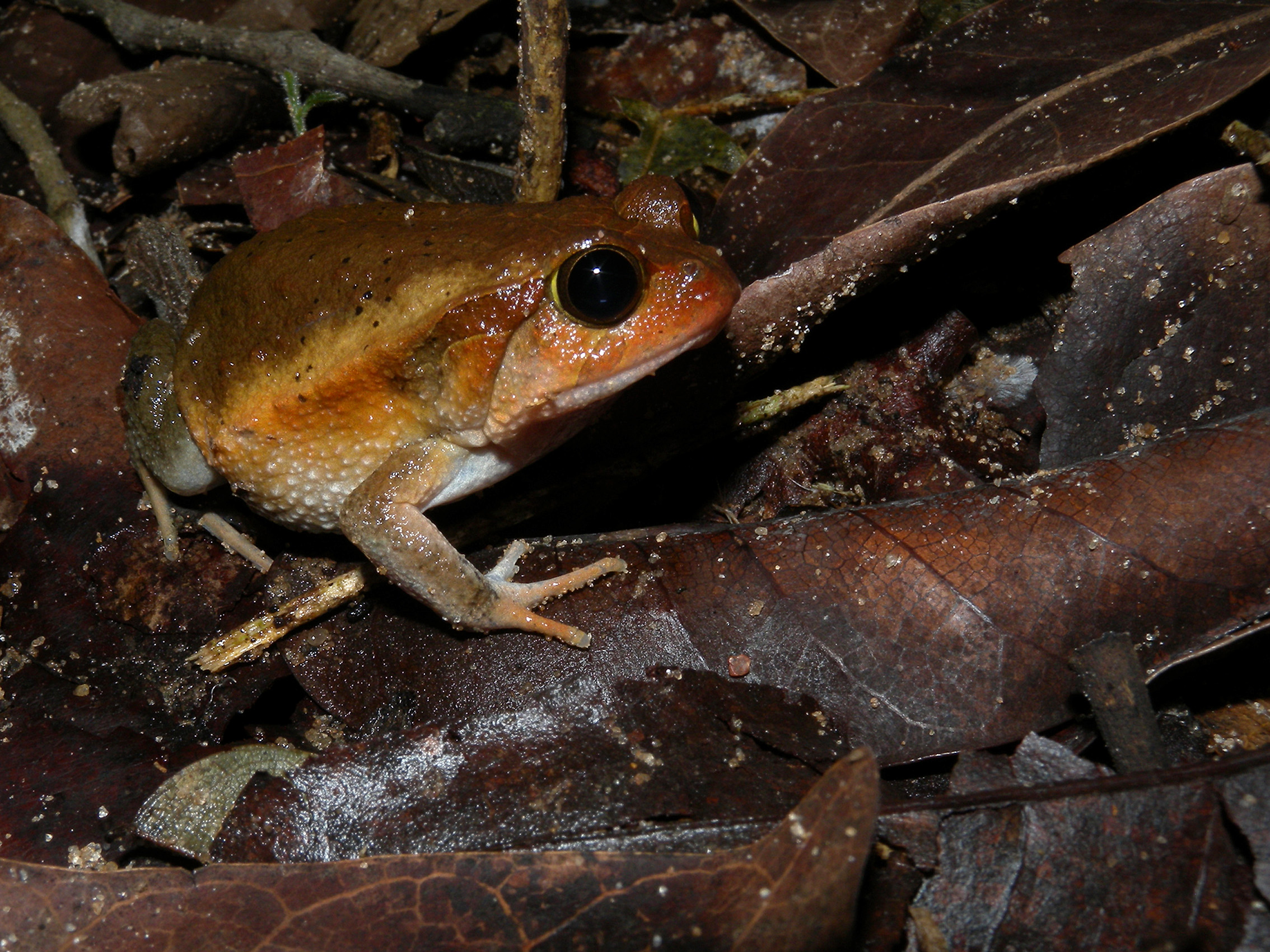 Dyscophus insularis A species of western dry deciduous forests, the "False" Tomato Frog is a close relative of the famous Red Tomato Frog (Dyscophus antongilii), which has a more confined distribution in North-Eastern Madagascar. for a picture of the Tomato Frog.